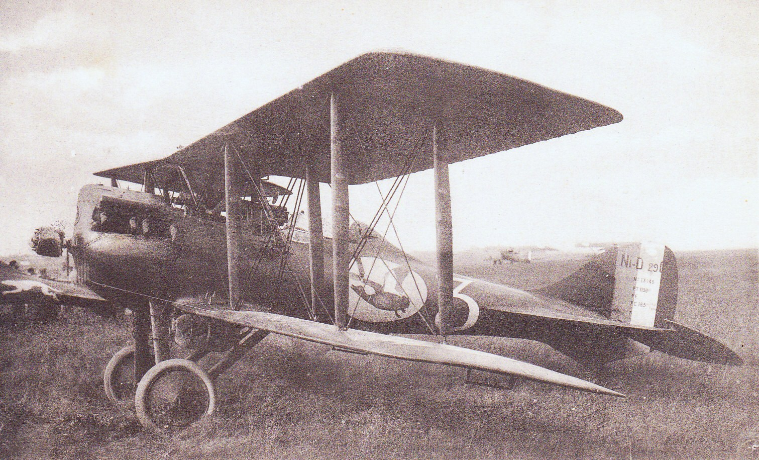 Nieuport-Delage NiD-29, 33rd RAM, 7th squadron, Mainz (Germany), ca.1929.